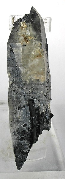 Quartz, Schorl, Montmorillonite, Cookeite Locality: Southern Pacific Silica Quarry (Nuevo Quarry), Nuevo, Riverside County, California, USA (Locality at ) Size: 13.1 x 3.9 x 2.9 cm. A quartz crystal densely included with a variety of Riverside County minerals - montmorillonite (clay), the whitish stuff, along with cookeite -- and, a cluster of schorl tourmaline crystals, including one long one that extends most of the way up the side of the quartz crystal. There are little needle-like crystals of schorl shooting through the center of the quartz as well.